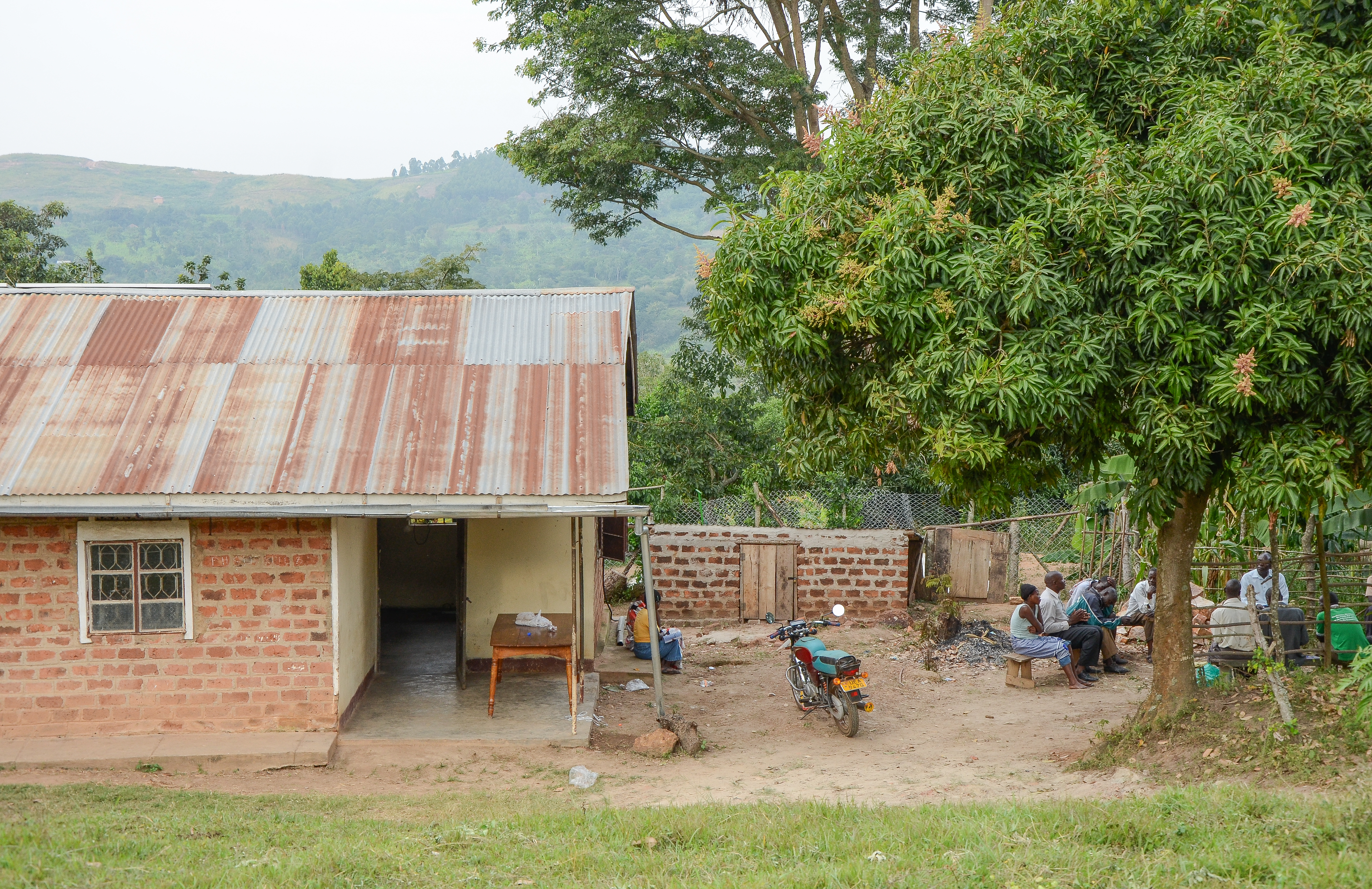 The Wikipedia Centre in Mbazzi have given new knowledge to the farmers. It have started a new culture of sharing knowledge.